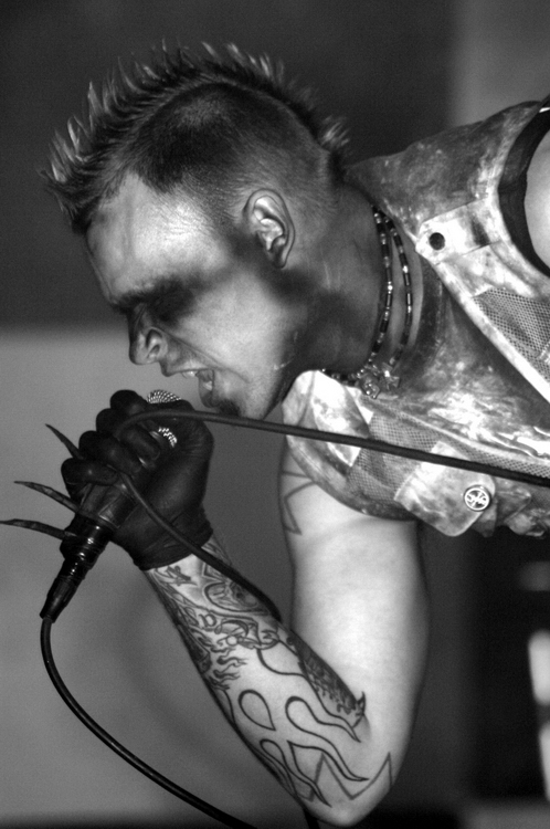 Andy LaPlegua live at New City in Edmonton, August 2007 with Combichrist